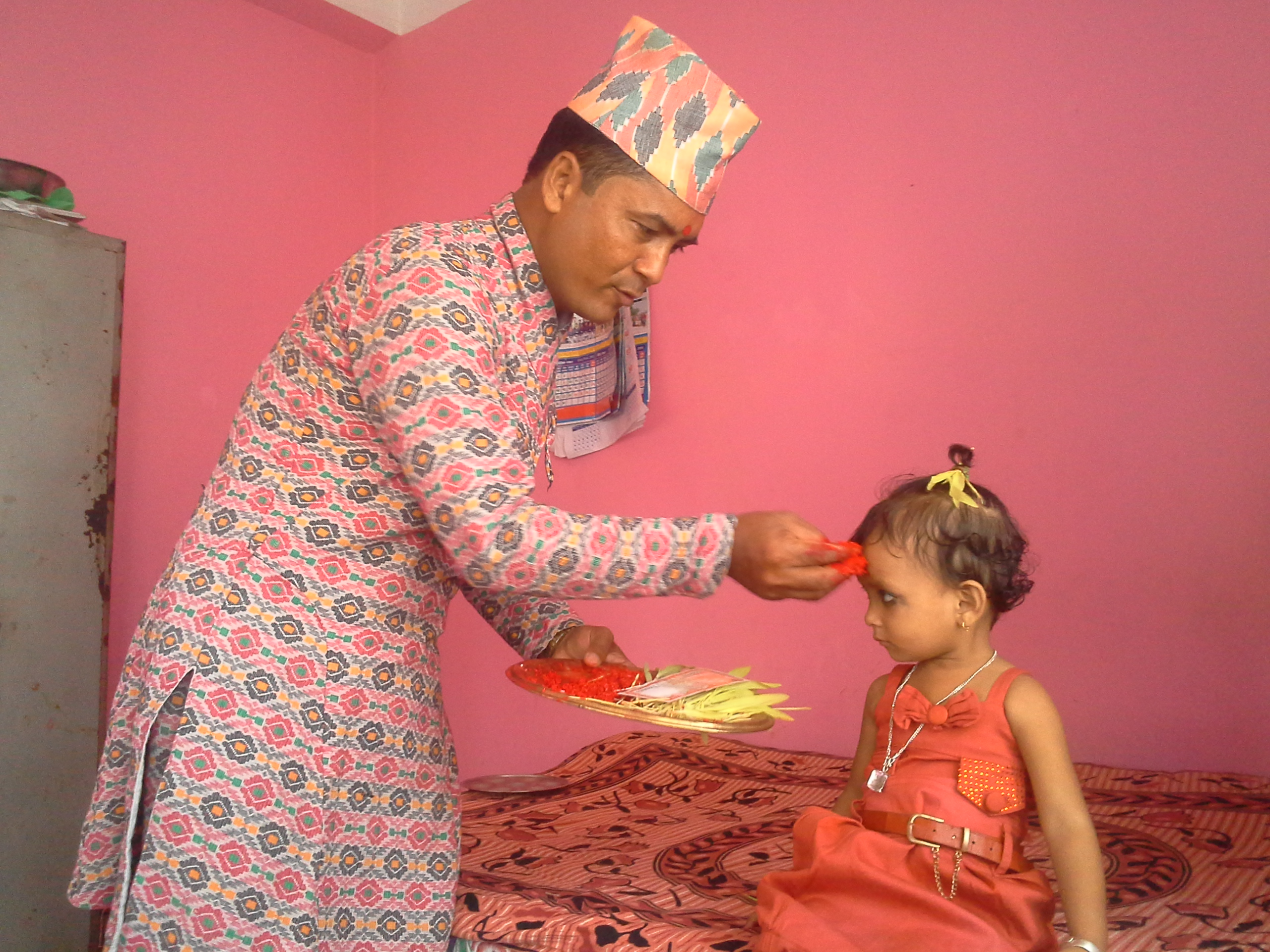 Nepali People celebrate Dashain Festival by putting tika and jamara from elder and relatives. Dashain is great festival of Nepali Hindus people. They celebrate this festival by work-shipping lord Devi, by work-shipping 9 different Durgas in nine different days they put tikas and jamara on 10th day.